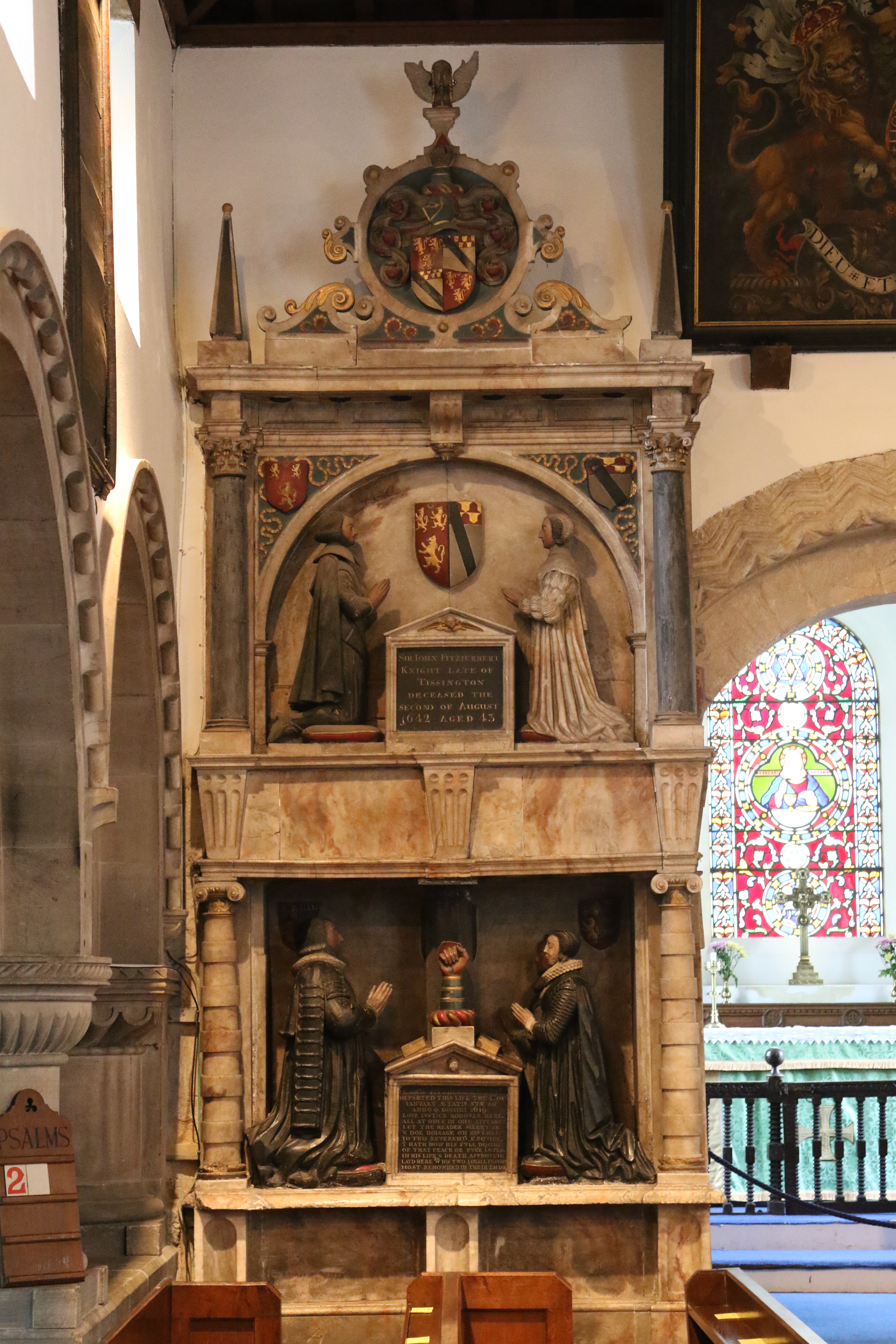 Tissington Church, Derbyshire, Memorial to Francis FitzHerbert (died 1619) and to Sir John FitzHerbert (1599-1642), Sheriff of Derbyshire in 1624.[1] Top inscription: "Sir John FitzHerbert, Knight, late of Tissington, deceased the second of August 1642 aged 43". Arms: Gules, three lions rampant or (FitzHerbert of Tissington) impaling Argent, a chief vairy gules and or overall a bend sable (FitzHerbert of Swynnerton & Norbury). For a pedigree of the FitzHerbert family see: John Gough Nichols, The Topographer and Genealogist[2]